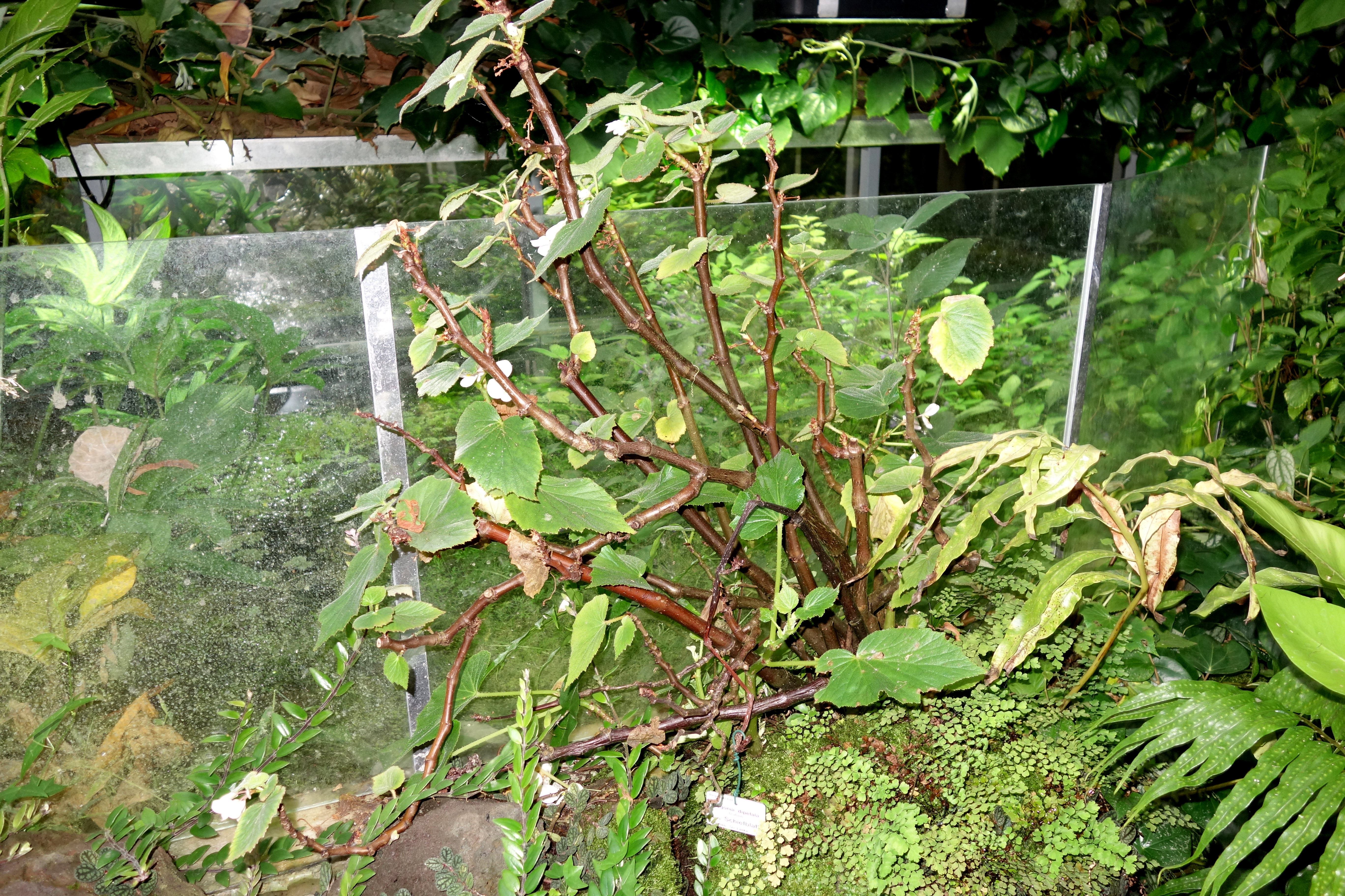 Botanical specimen in the Botanischer Garten, Dresden, Germany.